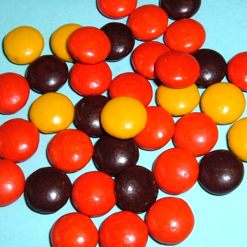 Reese's PiecesPurchased Feb. 2005